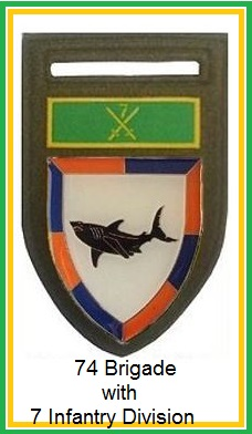 SADF era 74 Brigade with 7 Inf Division tupper flash